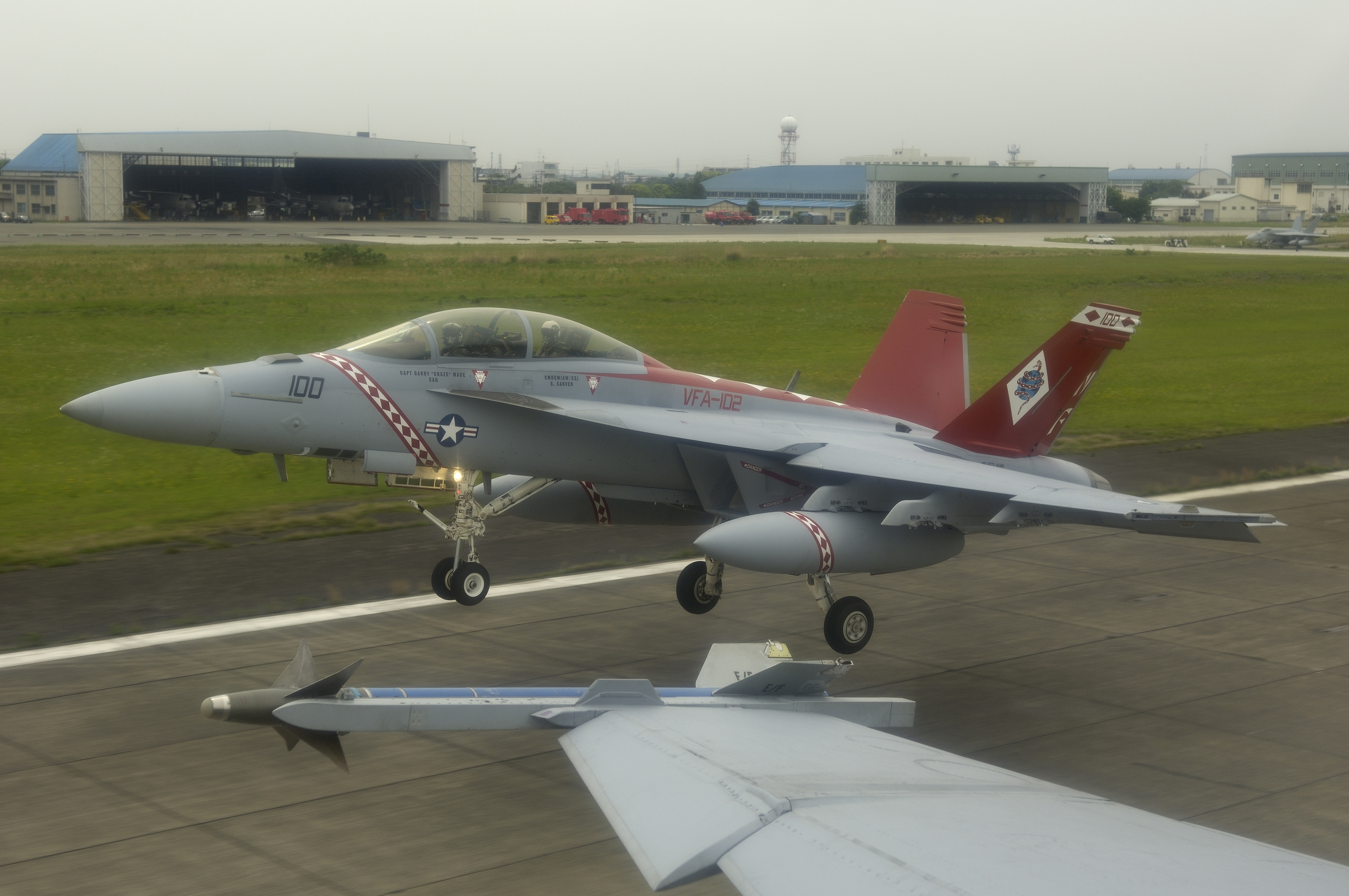 Two U.S. Navy F/A-18F Super Hornets from strike fighter squadron VFA-102 Diamondbacks taking off from NAF Atsugi, Japan, on 24 May 2006.